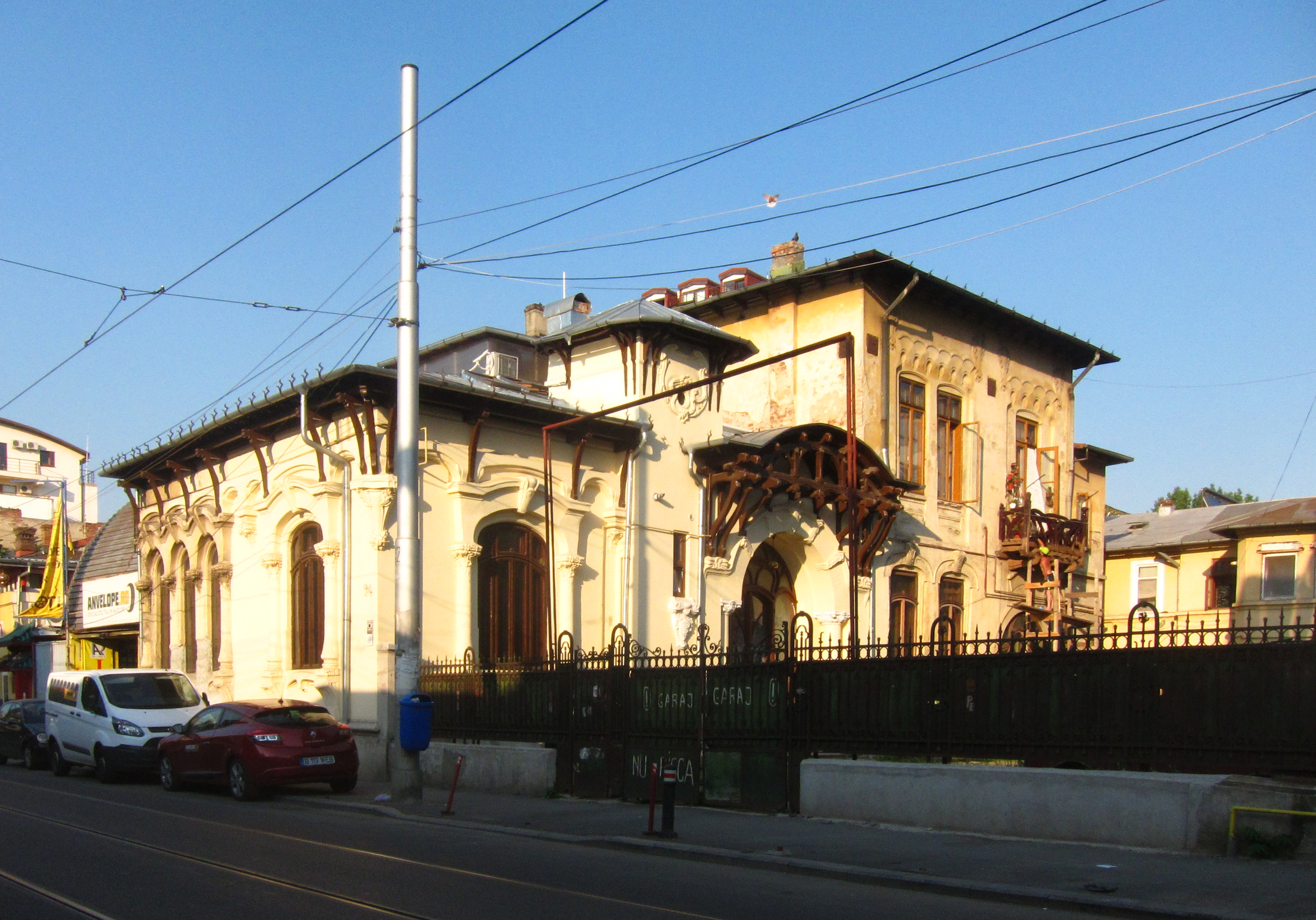 Ortansa Paciurea house in Viitorului street, Bucharest, RomaniaRomână: Casa Ortansa Paciurea din strada Viitorului, București, România